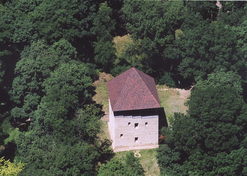 Dombóvár - Hungary - Europe